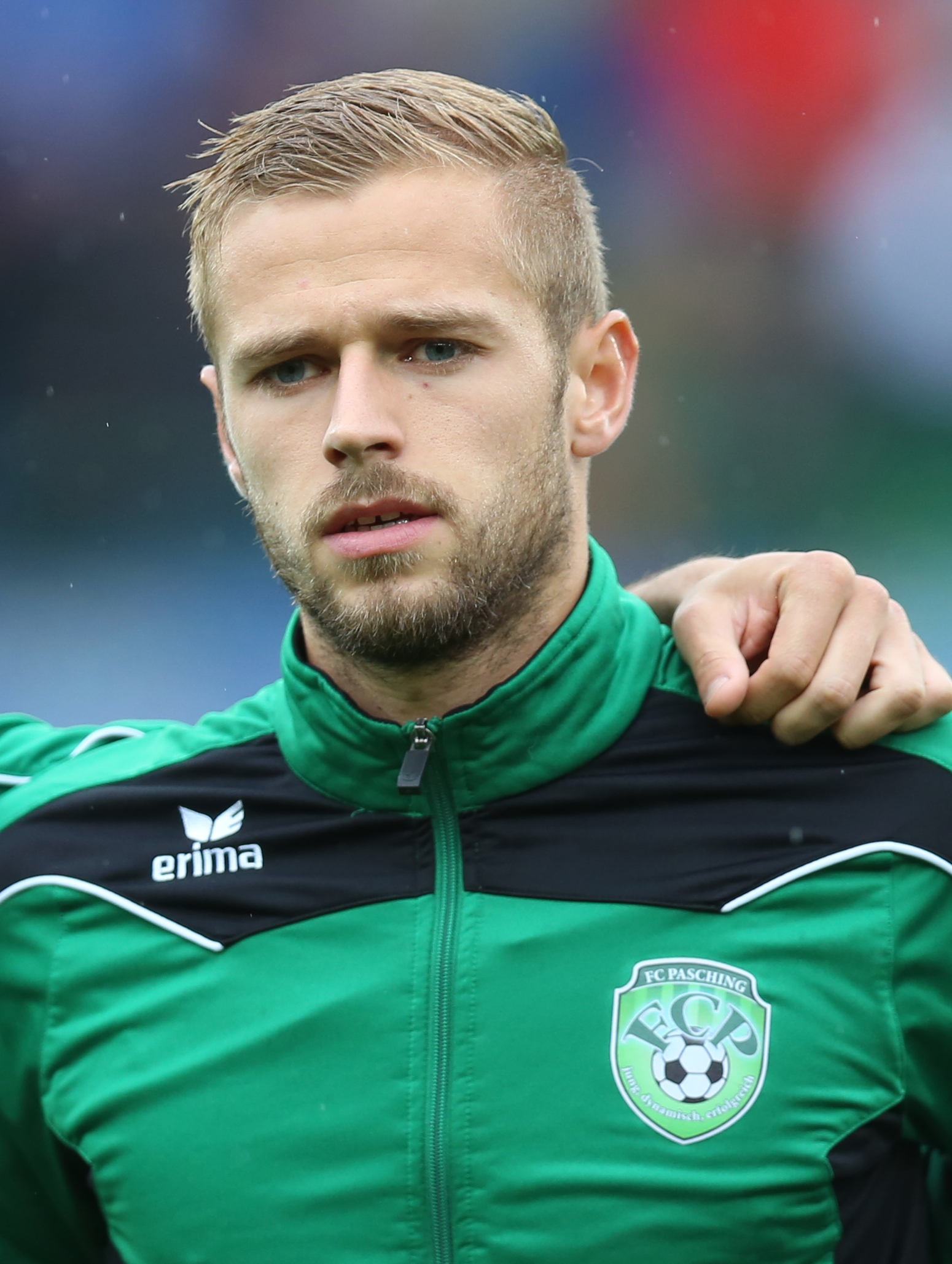 ÖFB-Cupfinale am 30. Mai 2013 im Ernst-Happel-Stadion (FC Pasching gegen FK Austria Wien 1:0). Im Bild der Verteidiger Martin Grasegger (FC Pasching). The making of this work was supported by Wikimedia Austria. For other files made with the support of Wikimedia Austria, please see the category Supported by Wikimedia Österreich.